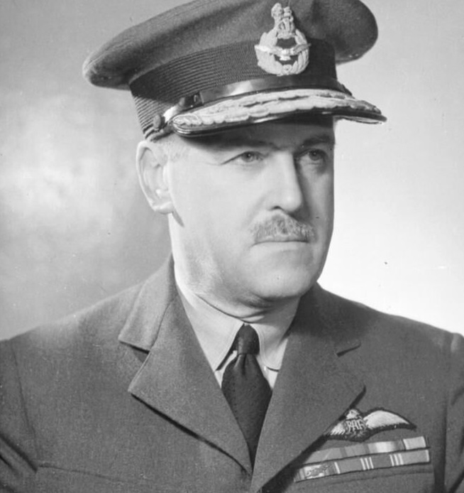 This image is a digitized photograph of Air Chief Marshal Sir Trafford Leigh-Mallory. The image was taken from where it was marked as Crown Copyright. Leigh-Mallory was killed in 1944 and so the photograph is more than 50 years old. Therefore it is now in the public domain.